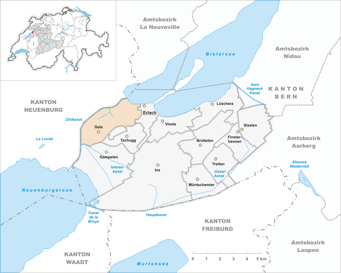 Municipality Gals